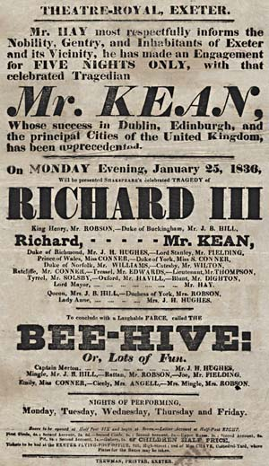 Theatre Royal Exeter playbill featuring Edmund Charles Kean in "Richard III"